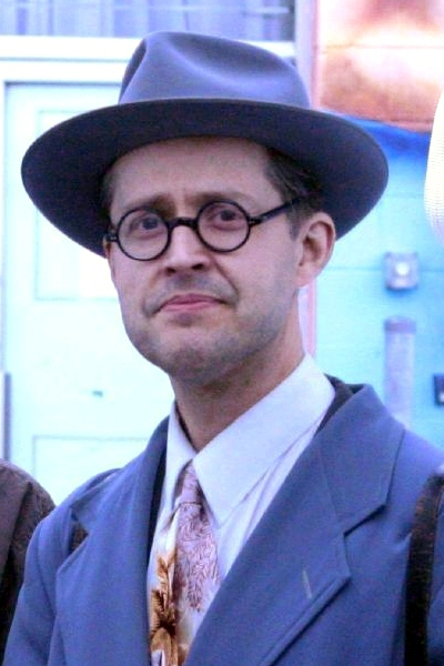 Canadian cartoonist Seth in 2005